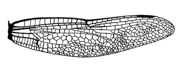 Wing of anisoptera, neuroptera